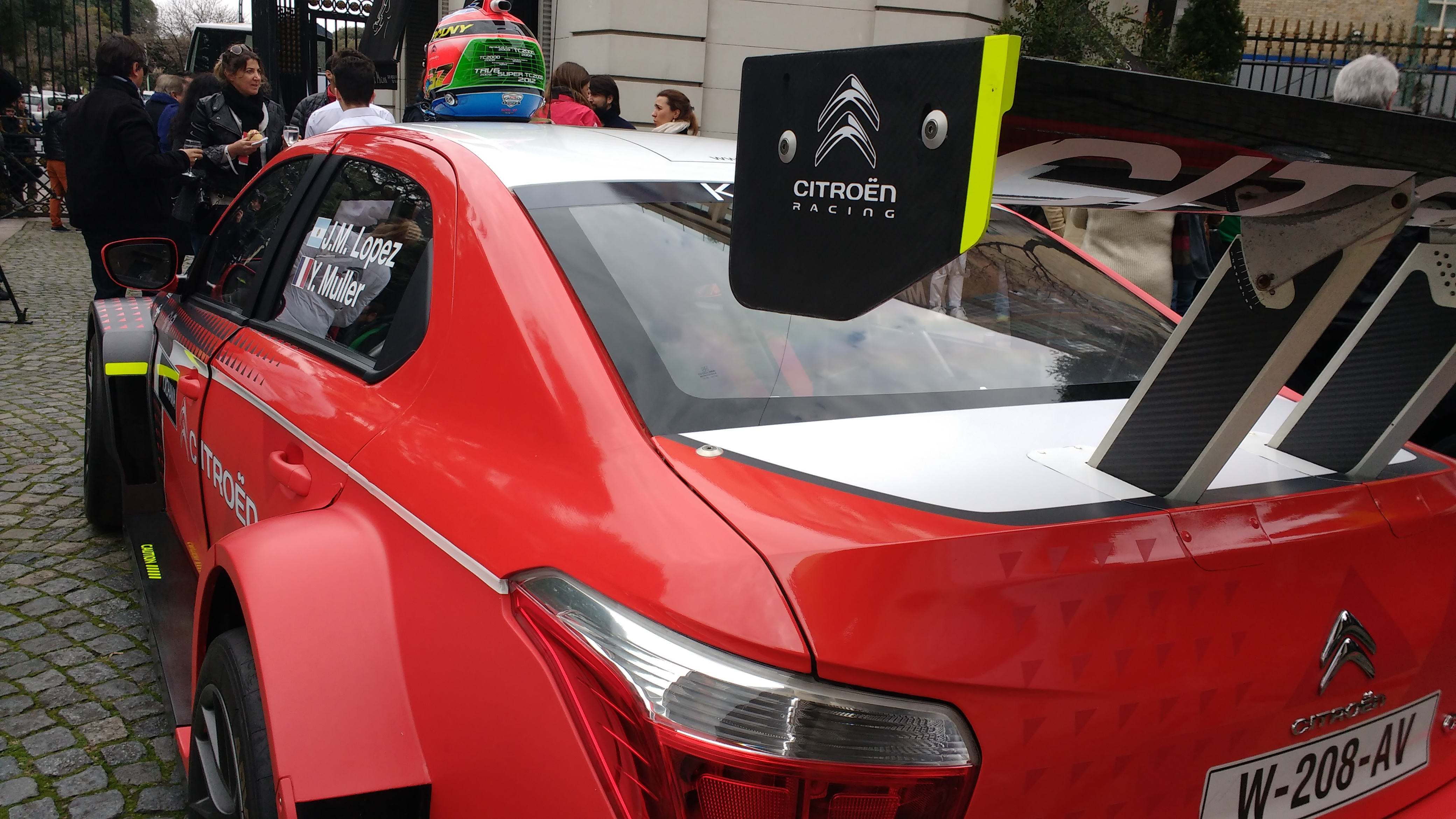 Citroën C-Elysée City Tour Buenos Aires